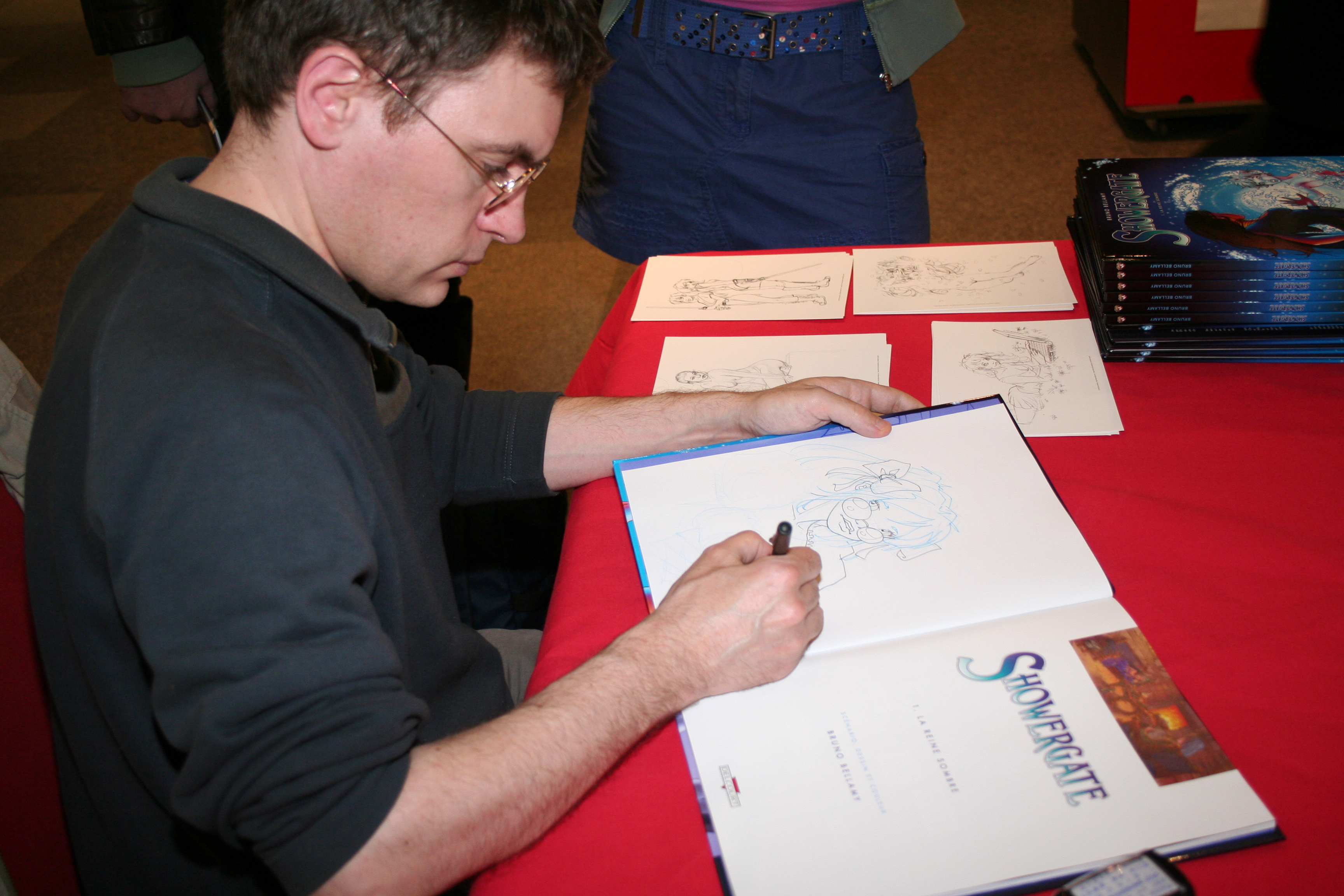 Autograph session with Bruno Bellamy at Fnac de La Défense-CNIT (Paris, France).